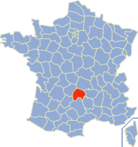 Map of France with highlighted department of Cantal (15).